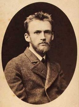 Malte Odin Engelsted (1852-1930), Danish painter